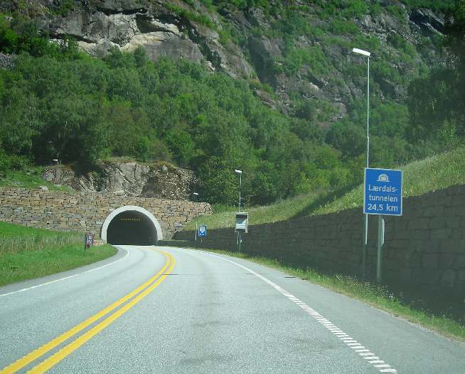 South entrance to Lærdalstunnelen, Norway